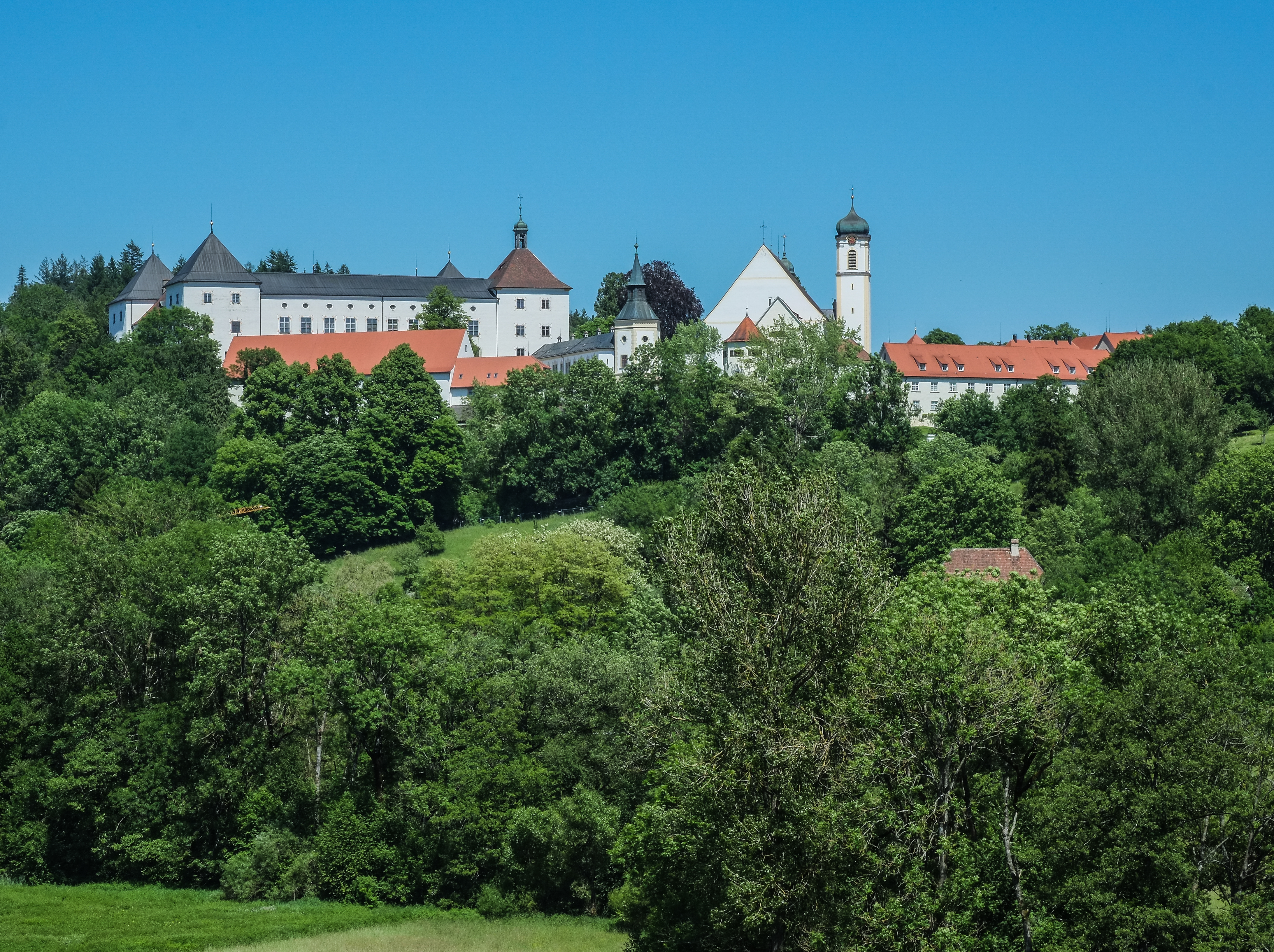 Wolfegg, county Ravensburg, Baden Wurttemberg, Germany